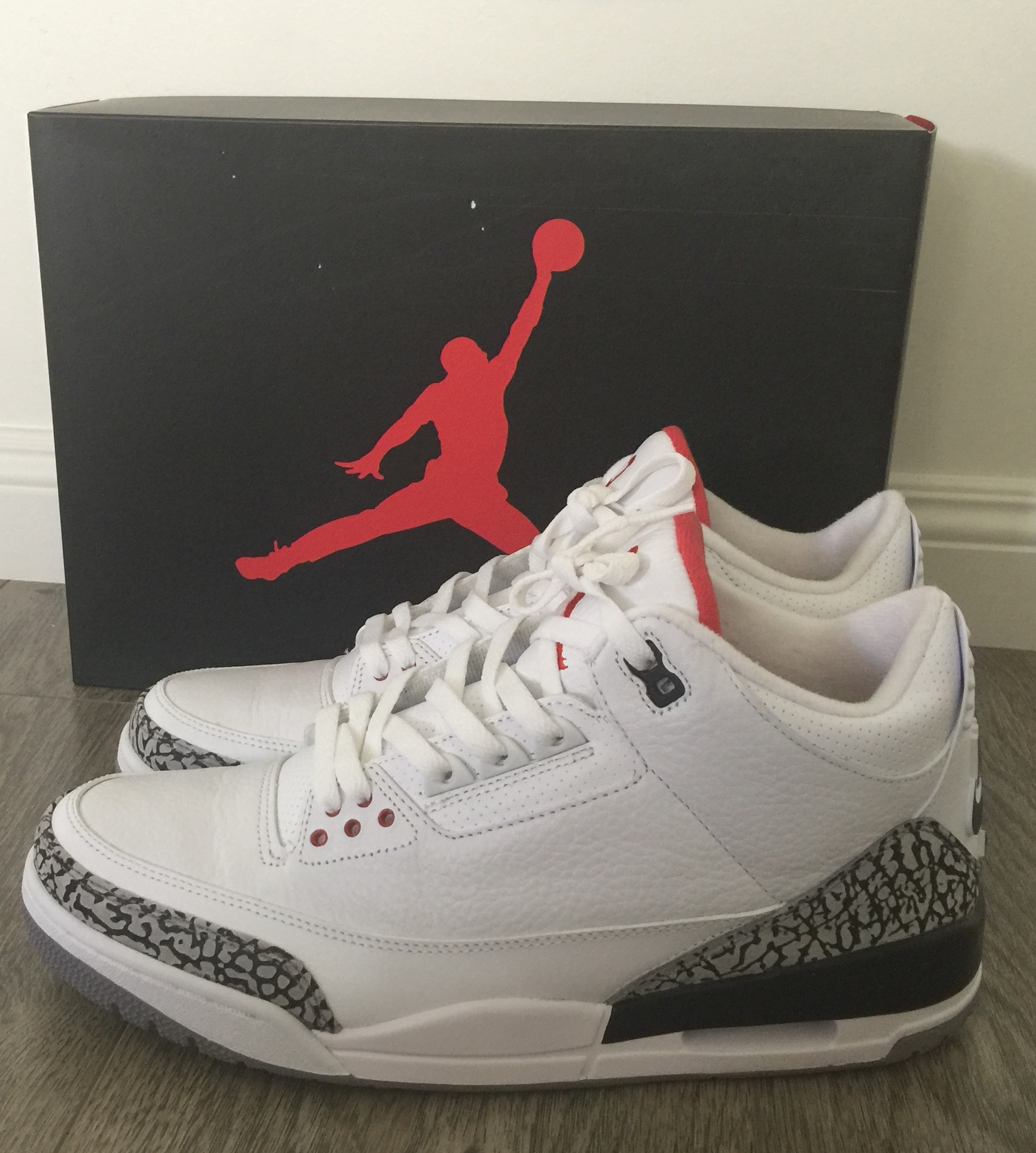 Air Jordan III, (White Cement Colorway)